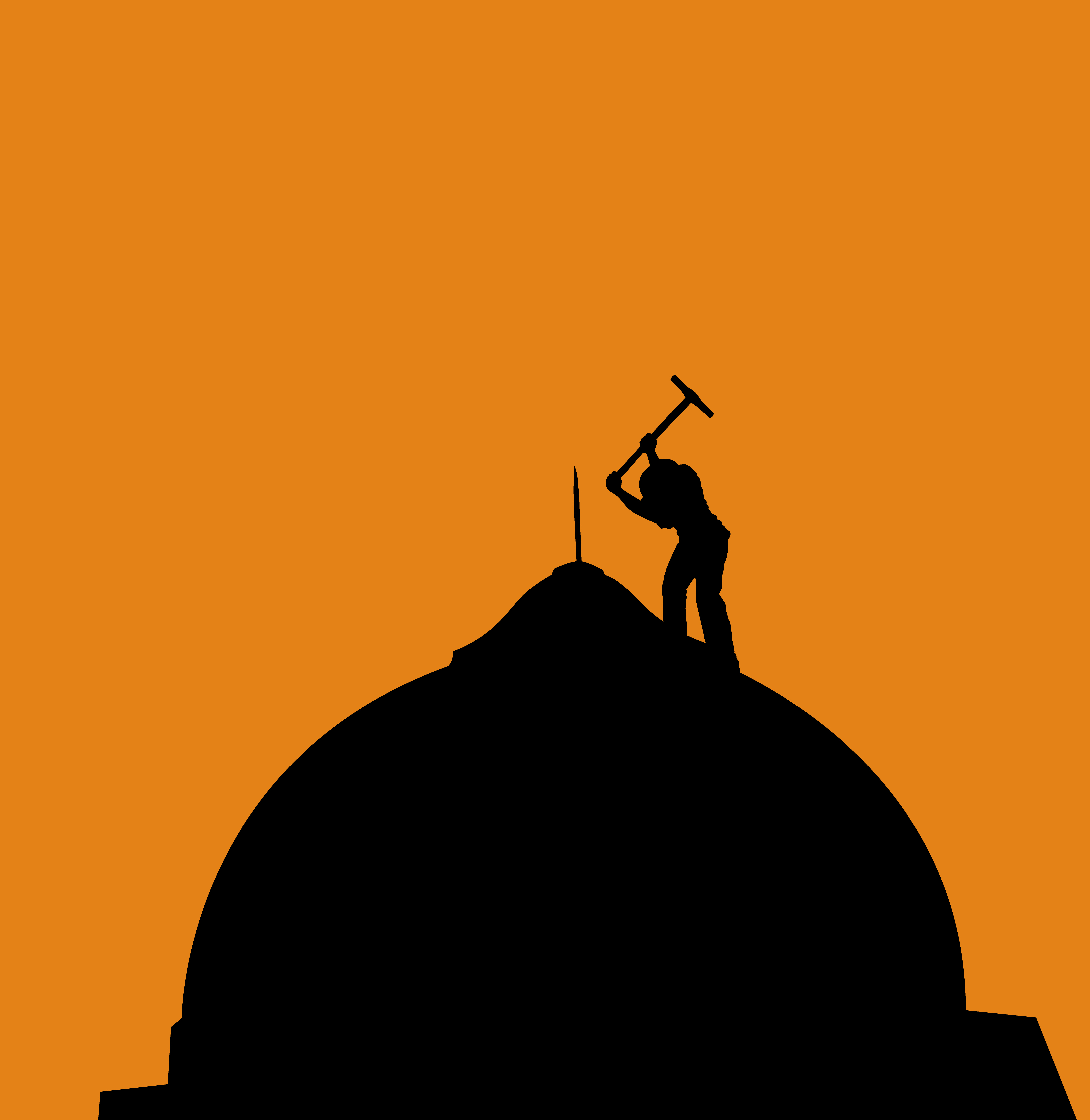 Babri Masjid Demolition Poster, Ram Mandir Construction. Created on Adobe Illustrator CC 2017